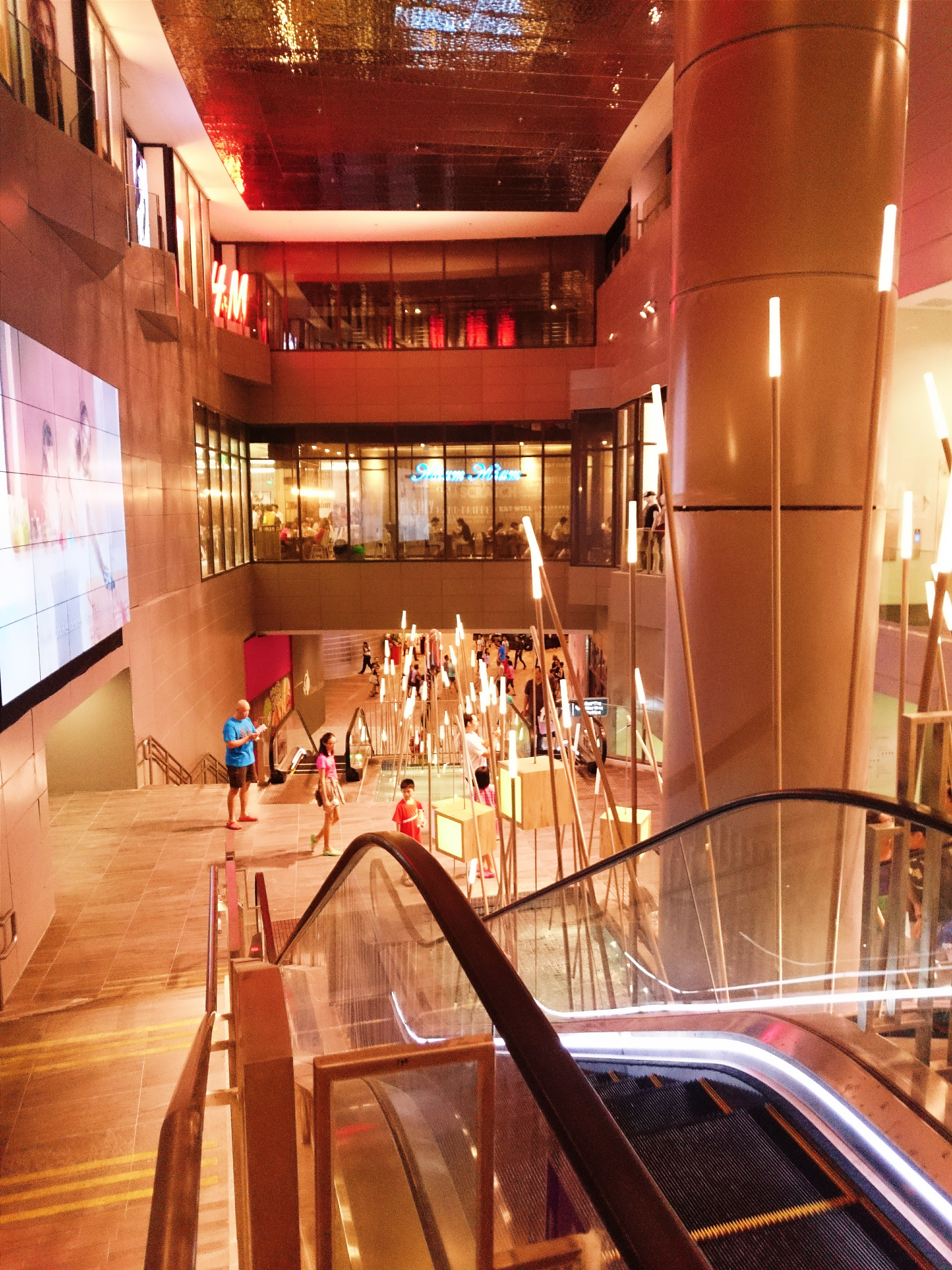 The Boardwalk Entrance at Waterway Point. Taken with Xperia Z3